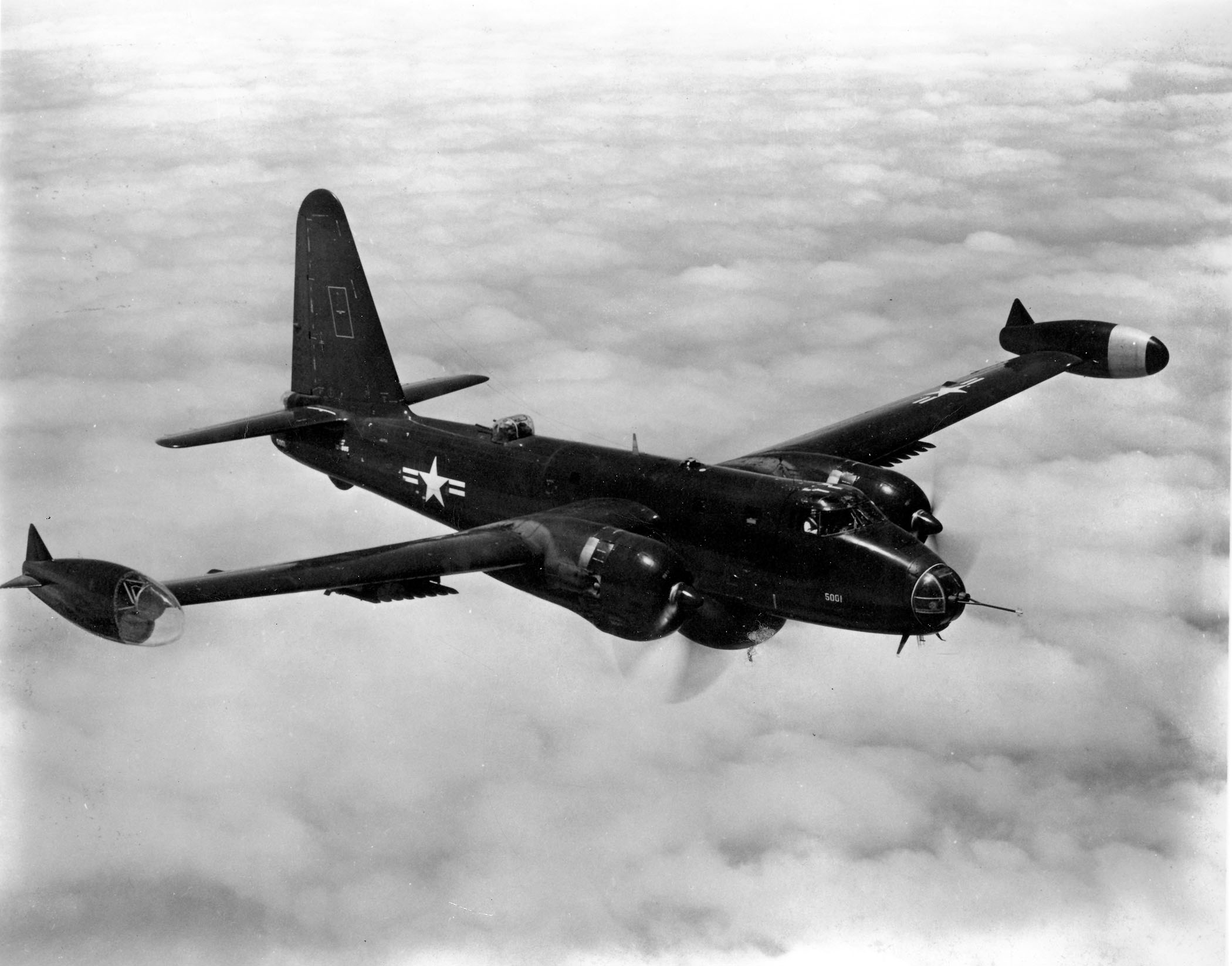 A Lockheed P2V-5 Neptune of Naval Air Station Jacksonville (Florida, USA) in flight in 1952.